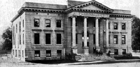 Bynum Gymnasium (now Bynum Hall) on the campus of the University of North Carolina at Chapel Hill